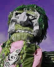 The giant Bolster from the Bolster Day celebration at Chapel Porth cove near St Agnes, Cornwall, UK